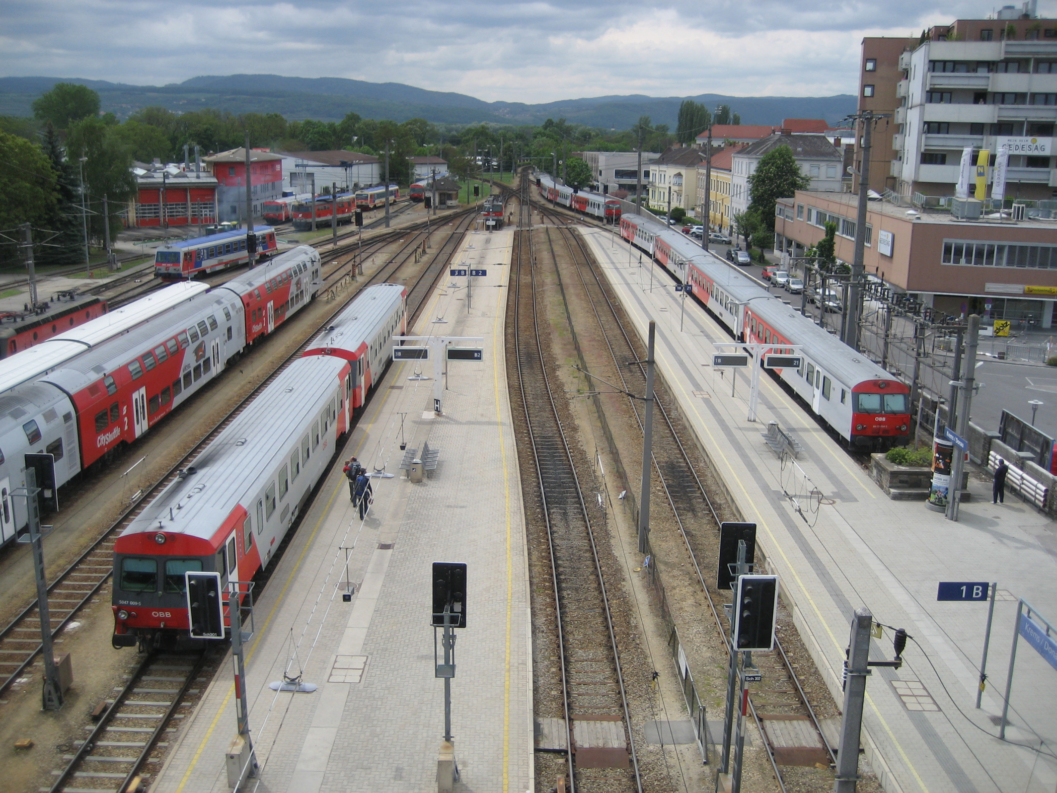 Train station Krems an der Donau in Lower Austria